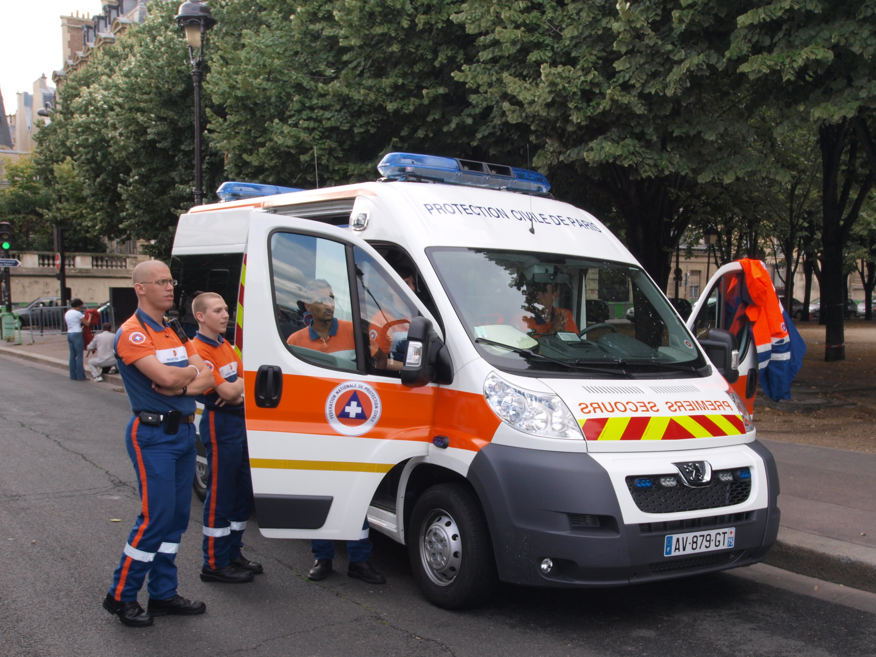 Photographed in France.